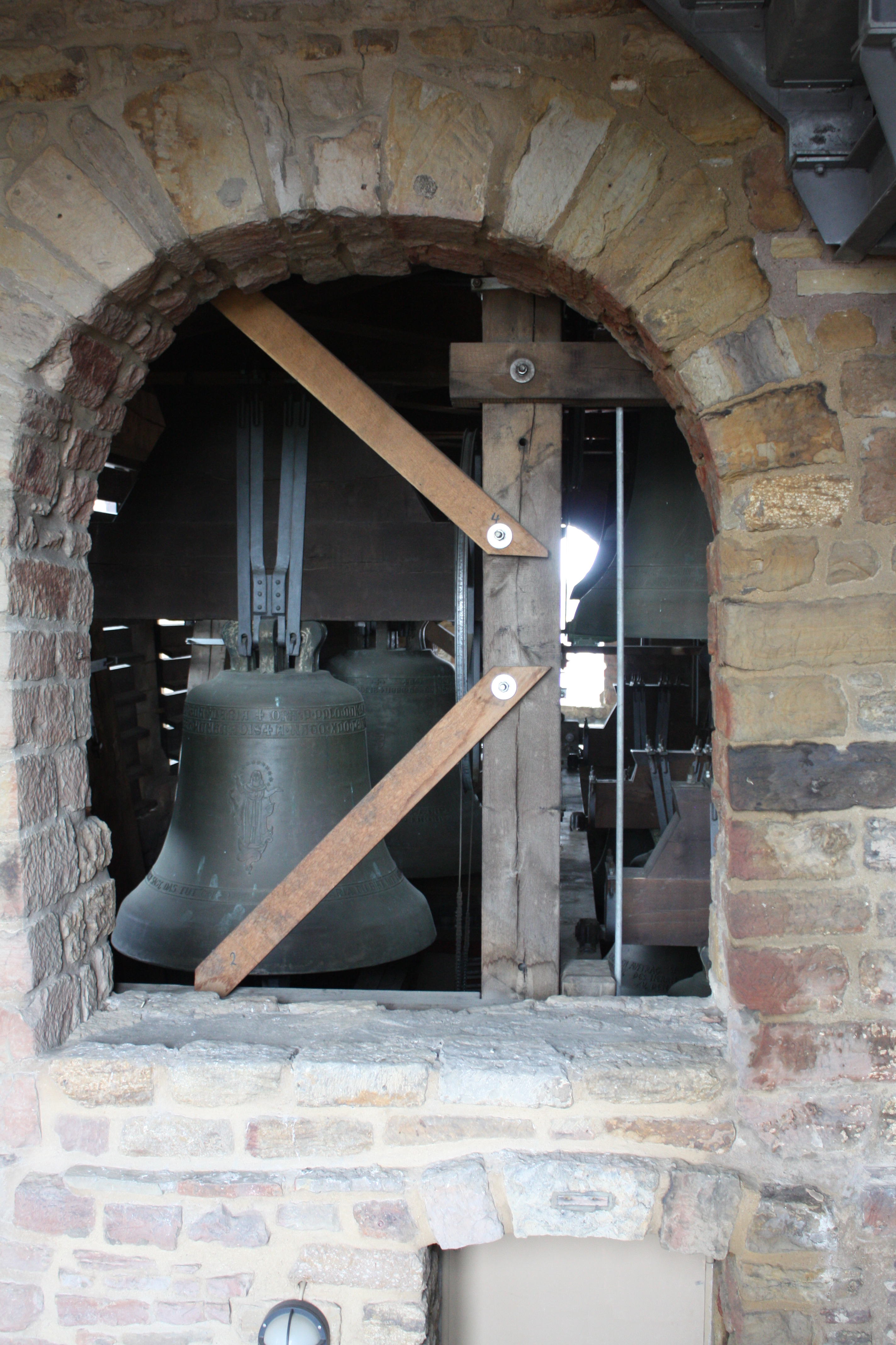 Cathedral in Minden, District of Minden-Lübbecke, North Rhine-Westphalia, Germany.